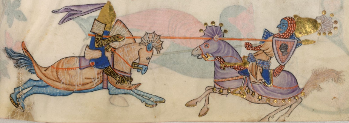 Psalter ('The Luttrell Psalter') 1325, British Library, MS 42130, fol. 82r, Detail: Richard I of England vs. Saladin at Jaffa